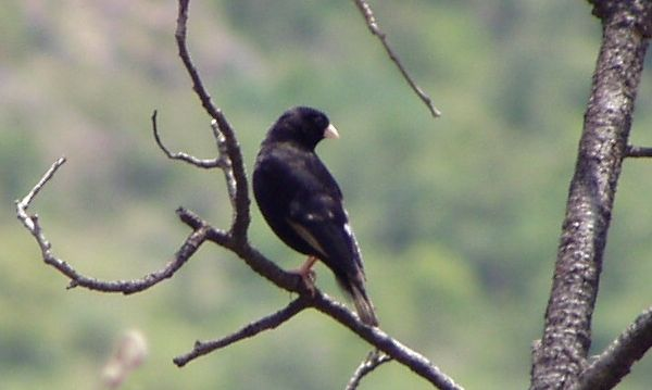 A male Purple Indigobird (Vidua purpurascens). Location: Mabilingwe Resort, Limpopo Province, South Africa. For more information on this species